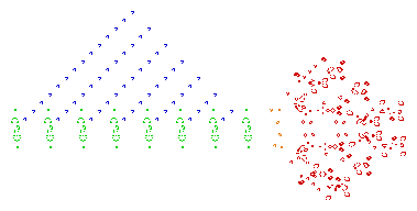 Breeder pattern in Conway's Game of Life